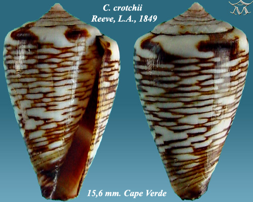 Conus crotchii 3